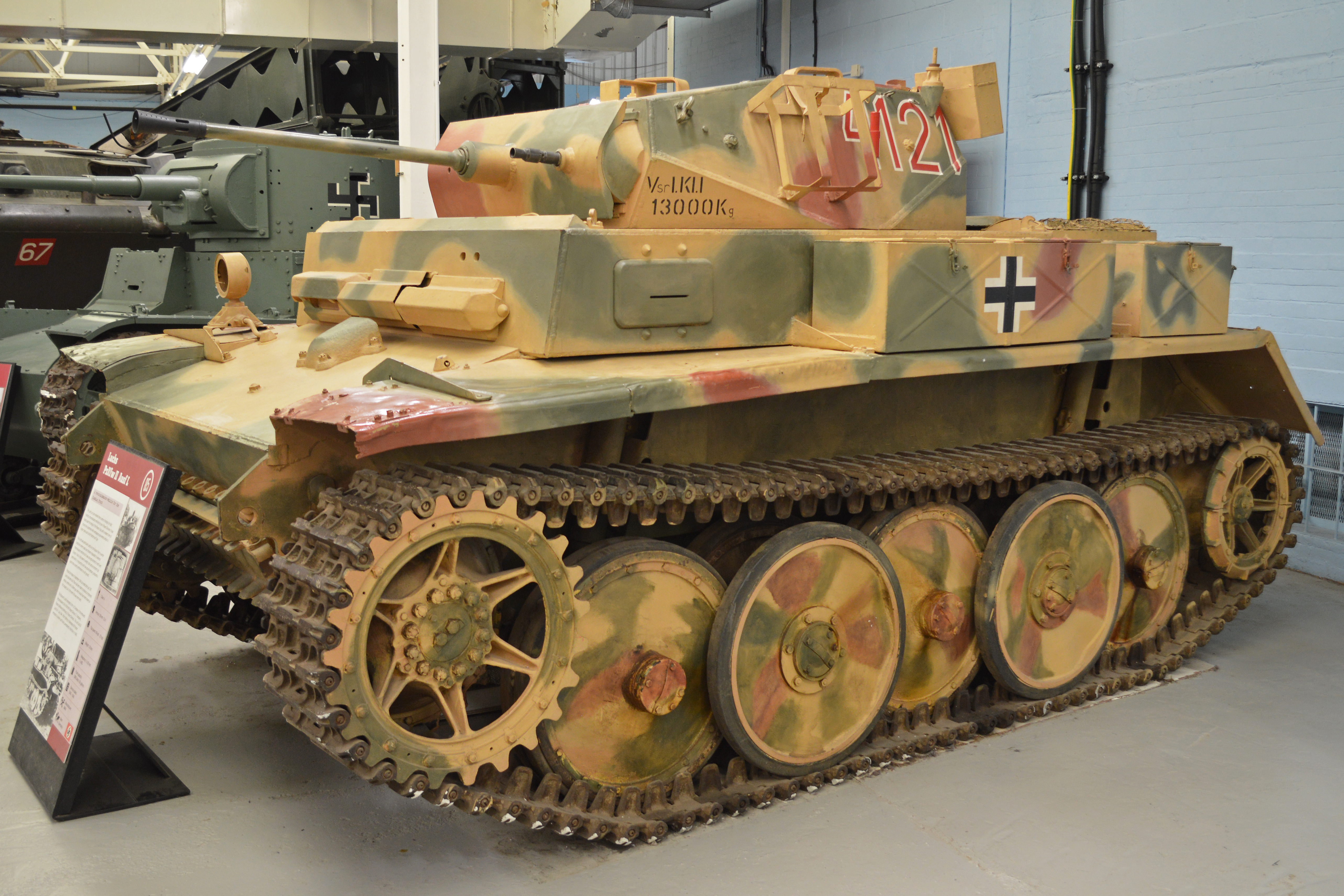 Official designation:- Sd Kfz 123 Panzerkampfwagen II Ausf L Built by MAN in July 1943. On display at The Tank Museum, Bovington, Dorset, UK. 26th July 2016